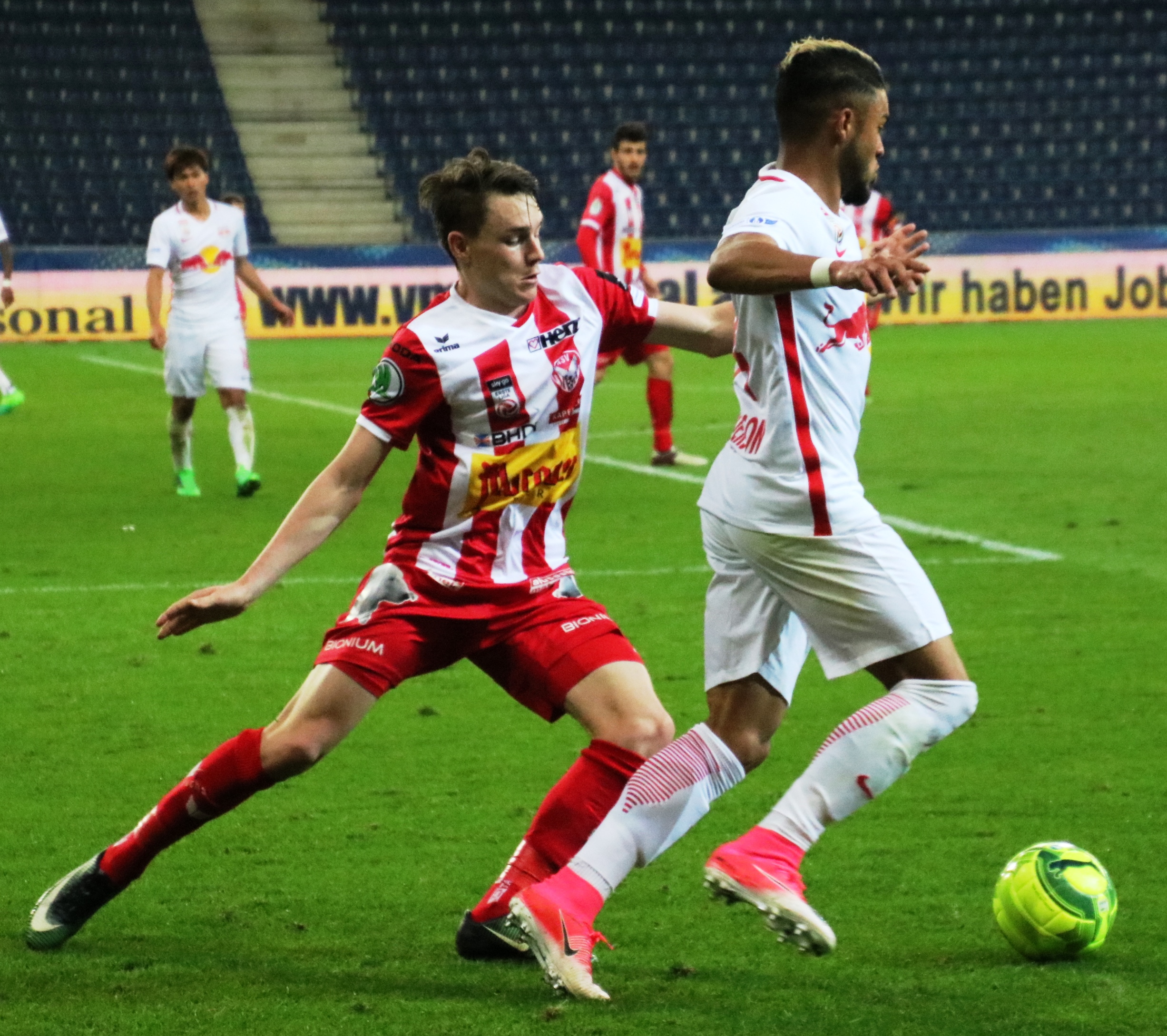 Quarterfinal Austrian Cup